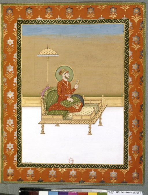 National Library of France, Department of Manuscripts, Eastern Division Rating: Smith-Lesouëf (East) 246 Author / Title: collection of paintings (portraits) As usual: Name of country: India Origin: delhi Century: 18th century Date: circa 1774 Artist